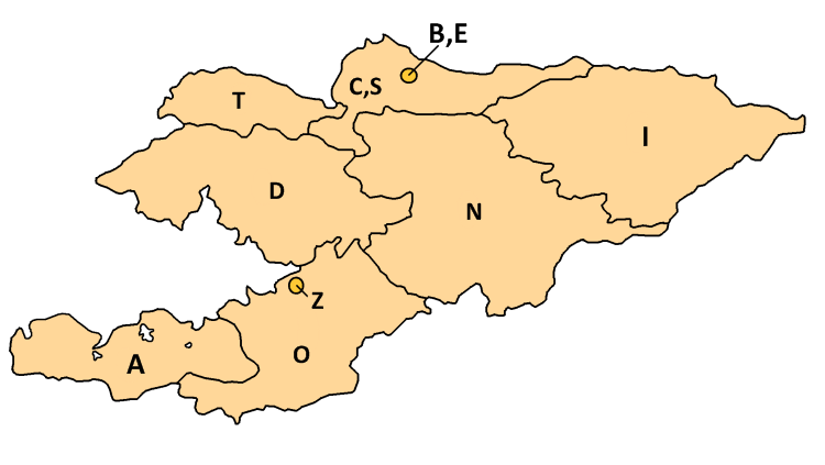 Map of region codes of the Kyrgyz license plates